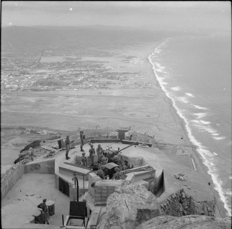 The British Army on Gibraltar 1941 A view of the Princess Royal Battery armed with a 40mm Bofors anti-aircraft gun, taken from the top of the Rock of Gibraltar. Spain can be seen in the background, 17 November 1941.